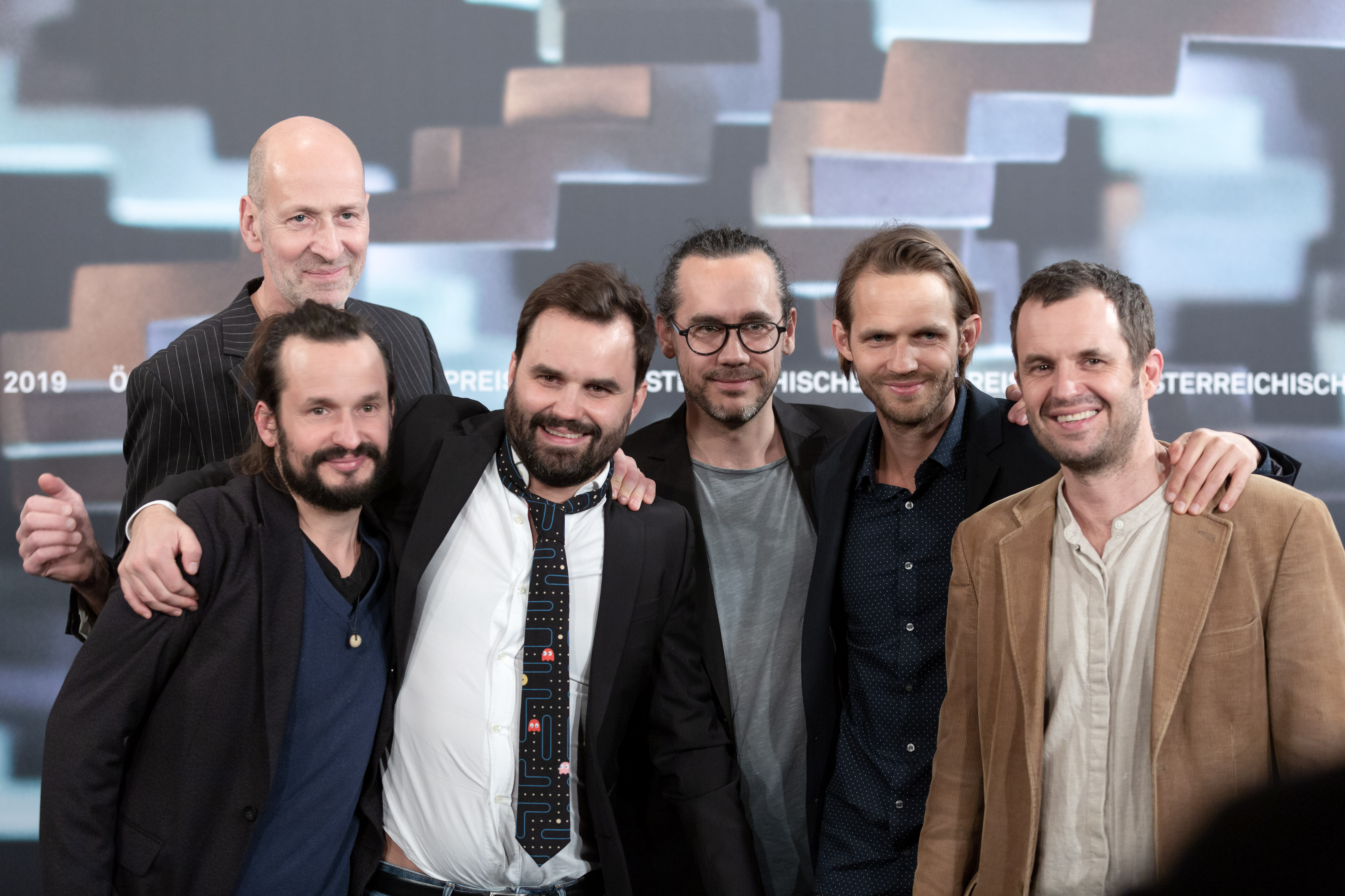 Ralph Wieser, Johannes Bohun, Stefan Bohun, Klemens Hufnagl, David Bohun and Marek Kralovsky, the team of "Bruder Jakob, schläfst du noch?", photo call at the Austrian Film Awards 2019 (Rathaus, Vienna,Austria).